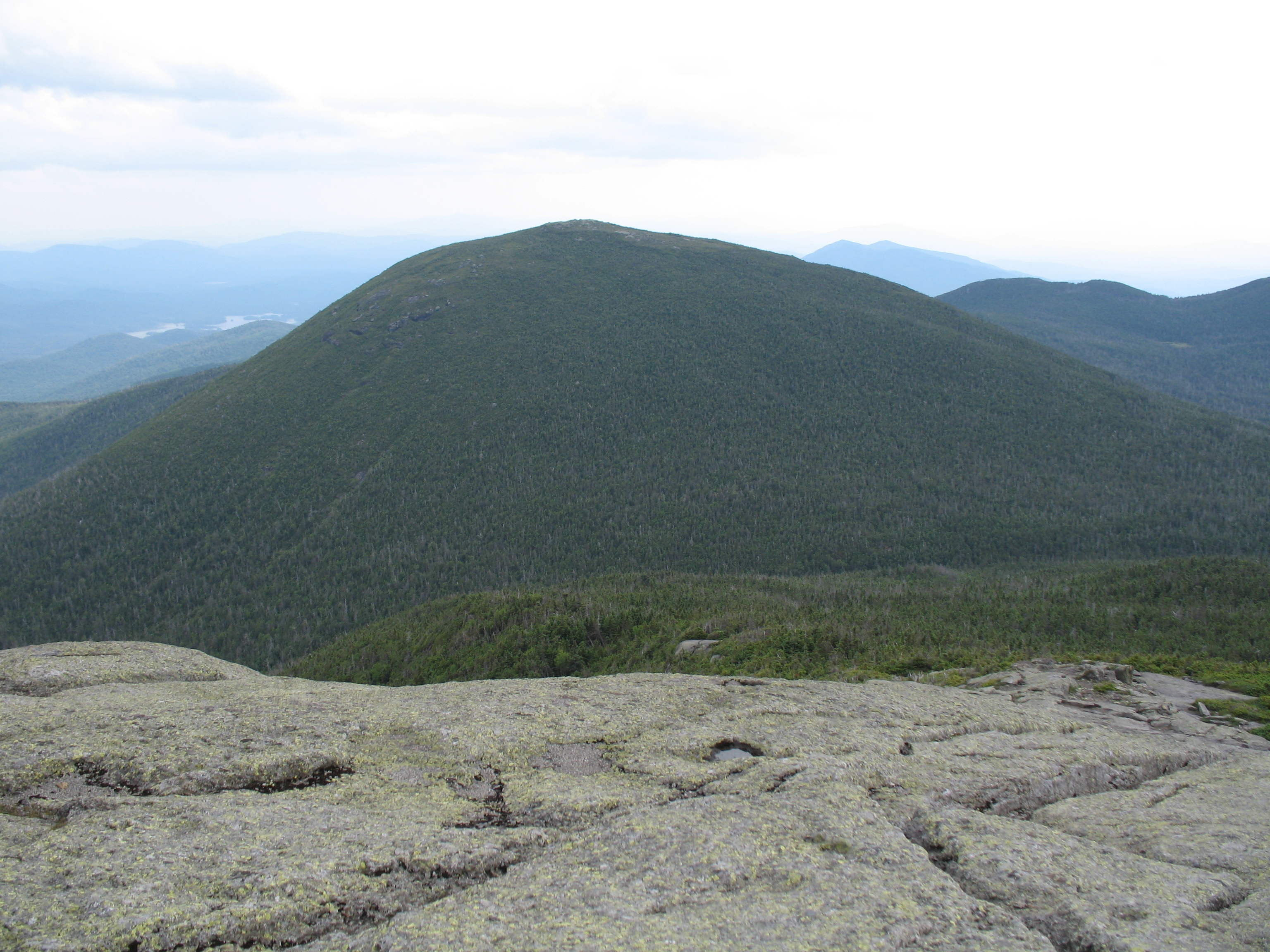 A view of Mount Skylight from the summit of Mount Marcy. Photo taken by M.L. Devall on July 17, 2007.